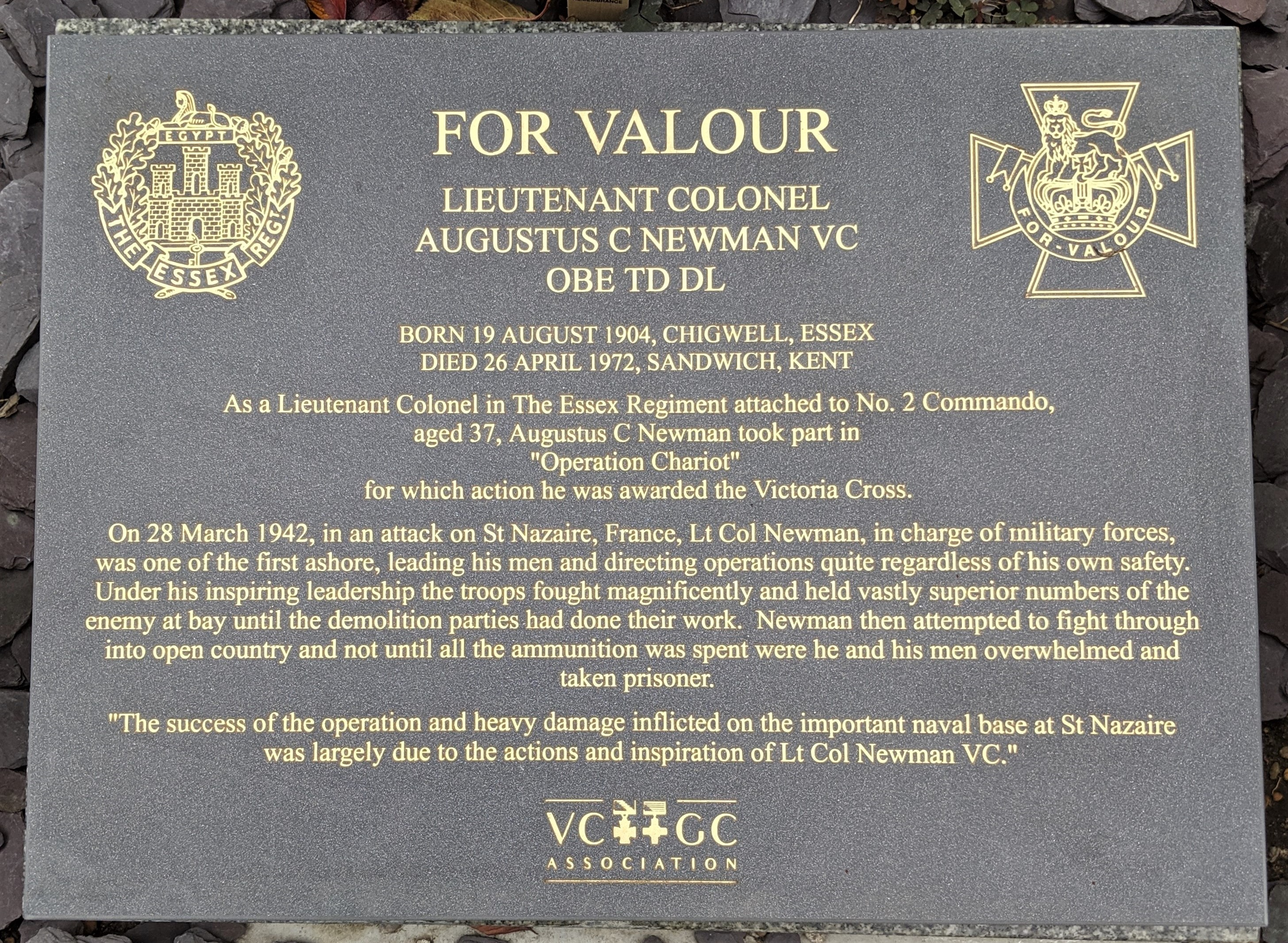 Plaque in churchyard of St Peter's Church in Sandwich, Kent, commemorating Lieutenant Colonel Augustus Charles Newman, VC